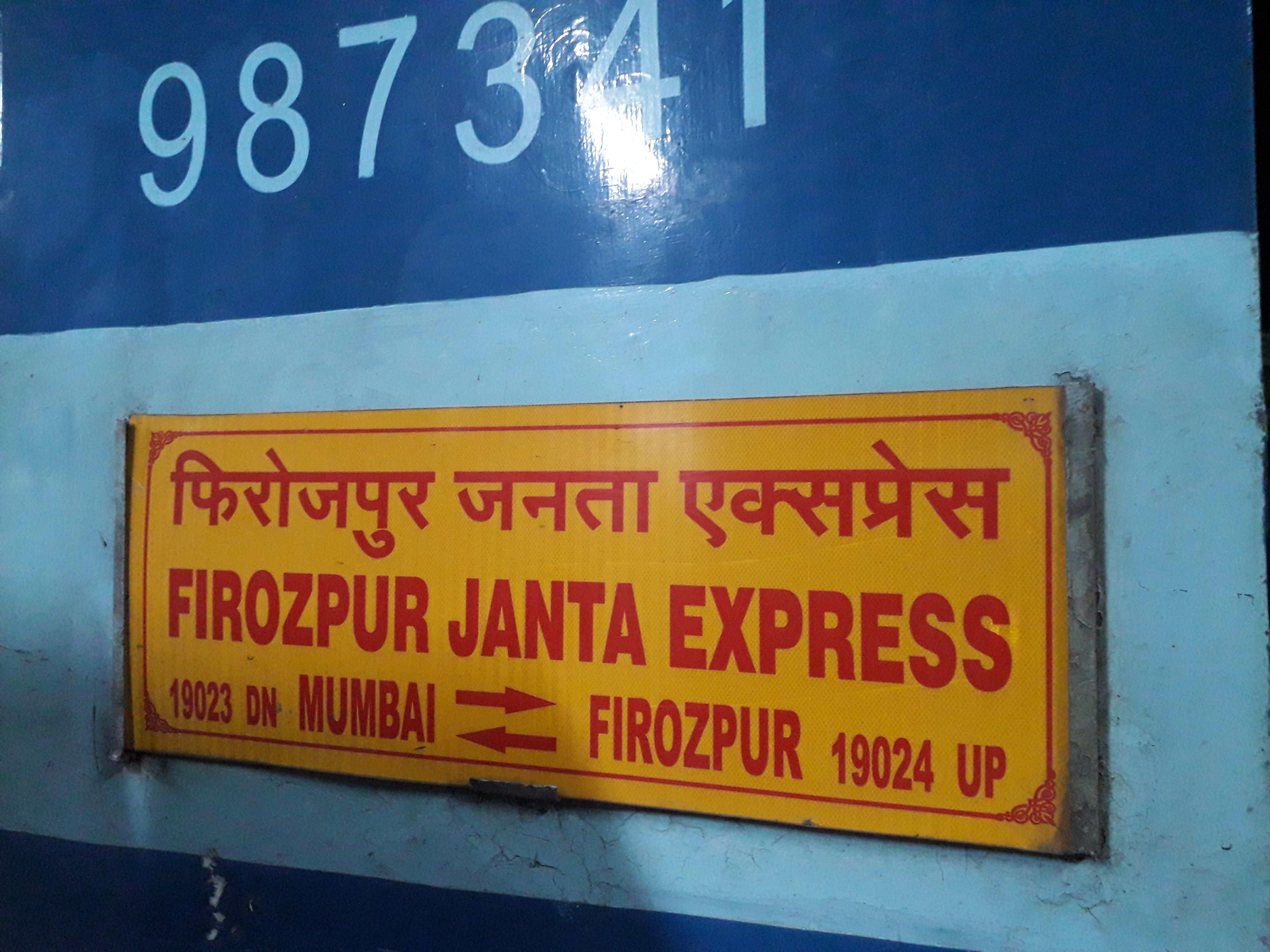 19024 Firozpur Janata Express - Trainboard